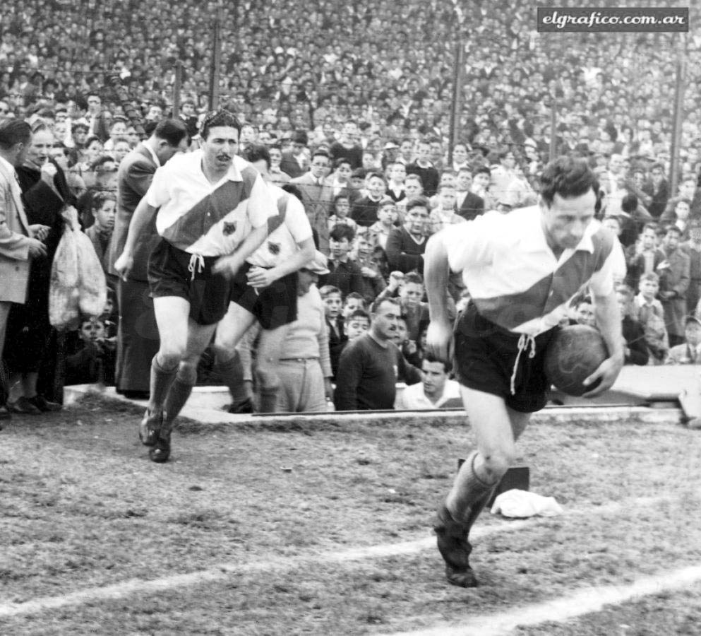 Félix Loustau (right) and Angel Labruna leading.